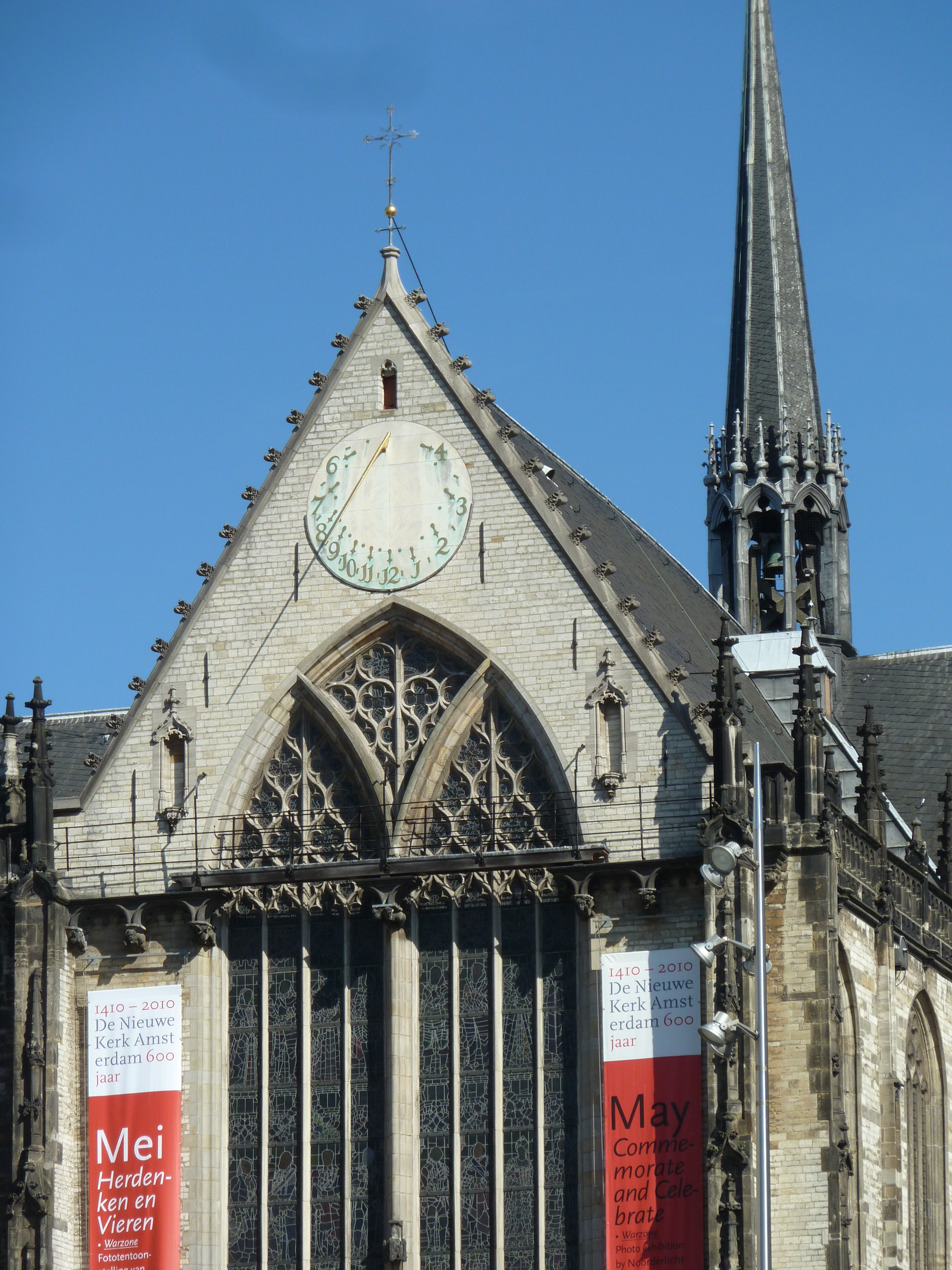 Just get a real clock already